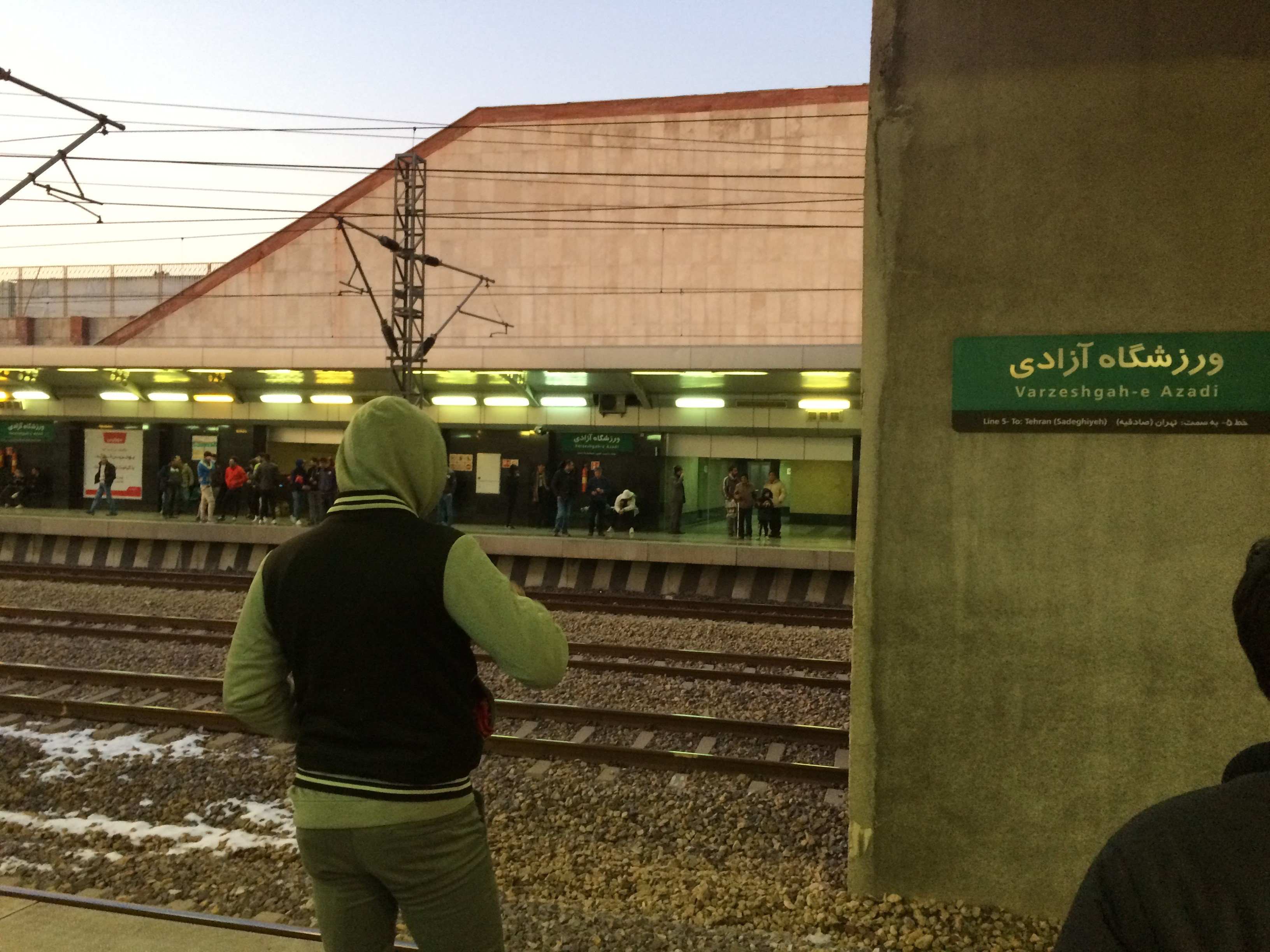 Persepolis F.C. v Tractor FC, 26 January 2020.